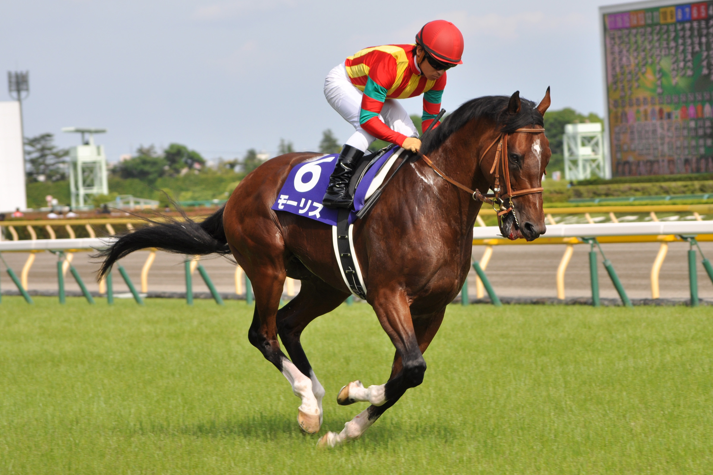 Japanese racehorse Maurice Tokyo racecourse(2015-06-07 The 65th Yasuda kinen).